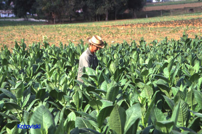 Tobacco plantation in Pinar del Rio, Cuba. The flowers are removed for the corona leaves to grow better. Photograph by Henryk Kotowski